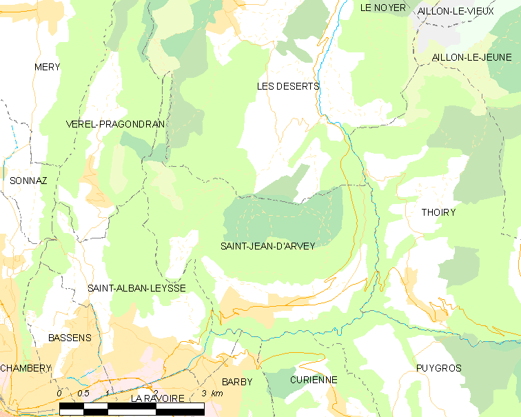 Map of French municipality